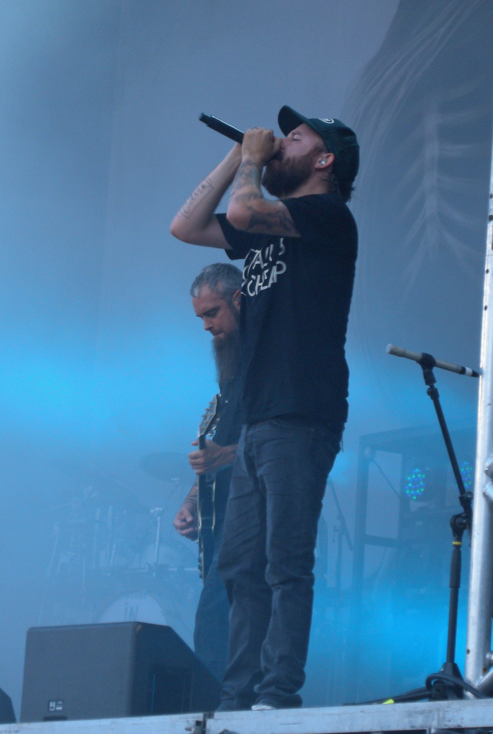 Anders Friden with In Flames at Sonisphere Festival, Stockholm, Sweden 2011